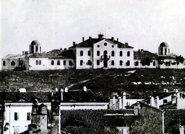 The Naval Observatory of the Austrian-Hungarian empire at Pola (now Pula, Croatia) in 1871